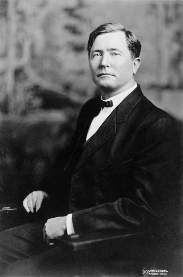 Oscar Callaway, three-quarter length portrait, seated, facing slightly left